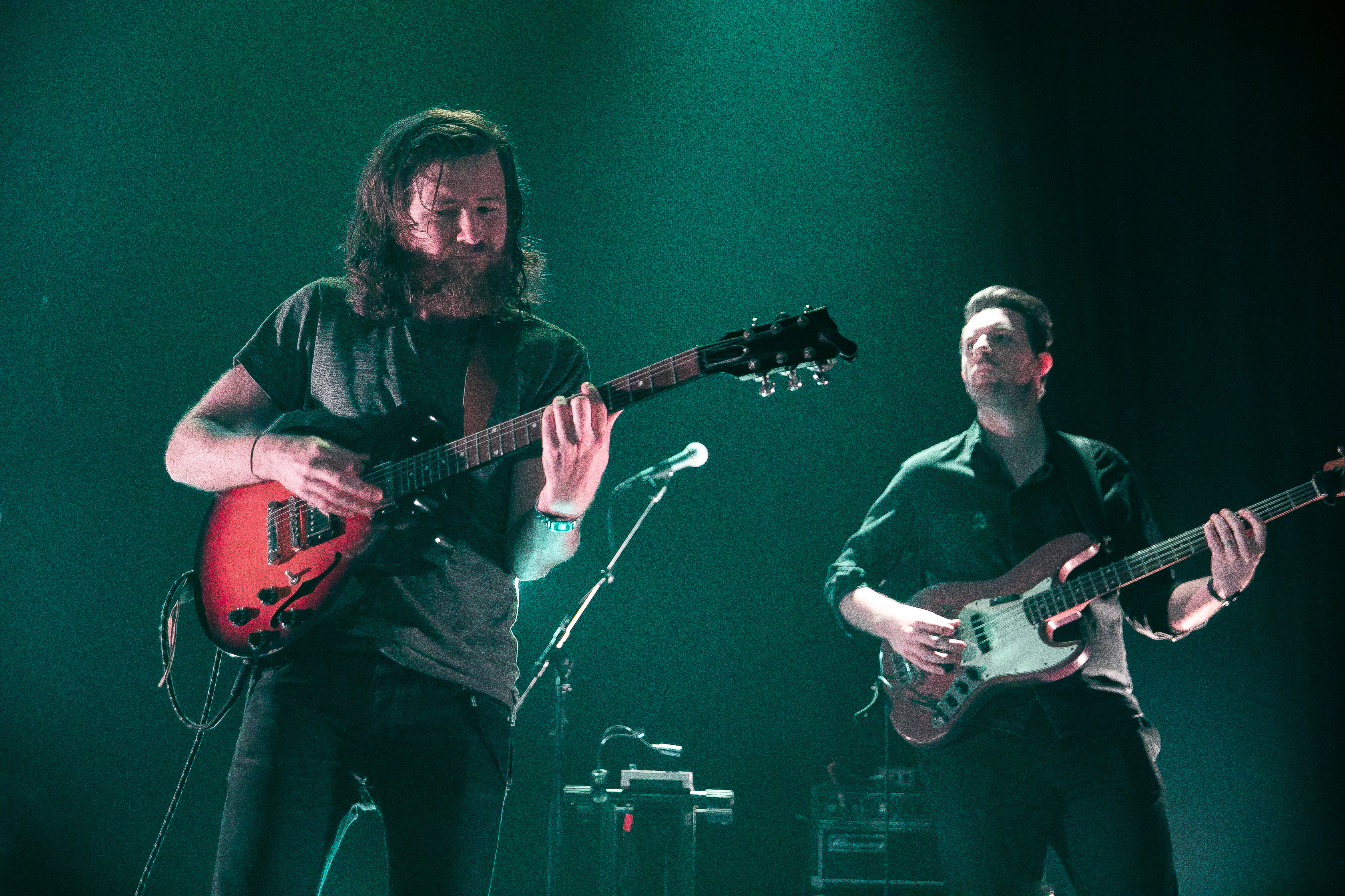 Holy Holy performing at Roundhouse in Sydney on 18th October 2019